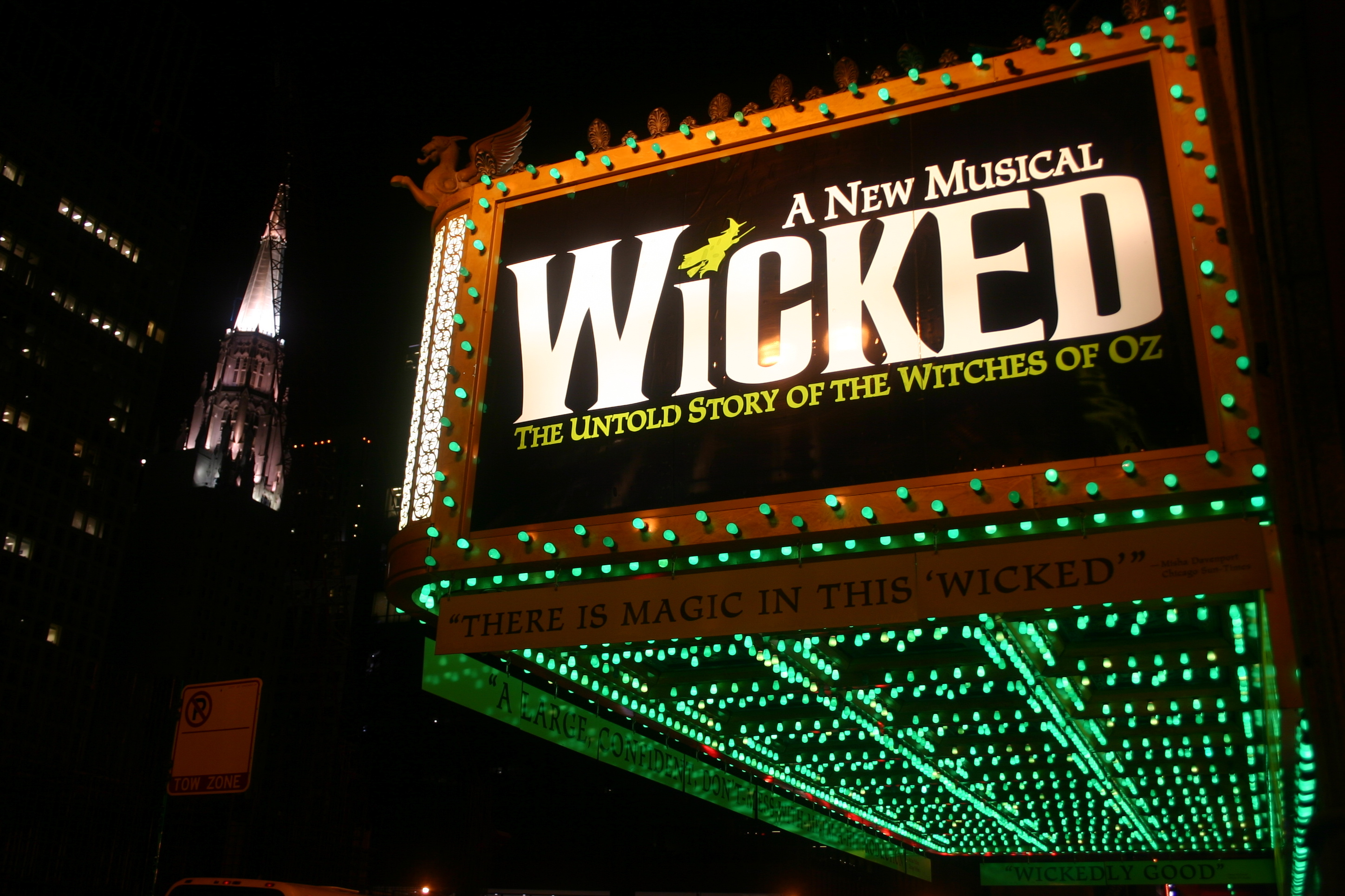 the wicked marquee on the ford/oriental theater in chicago